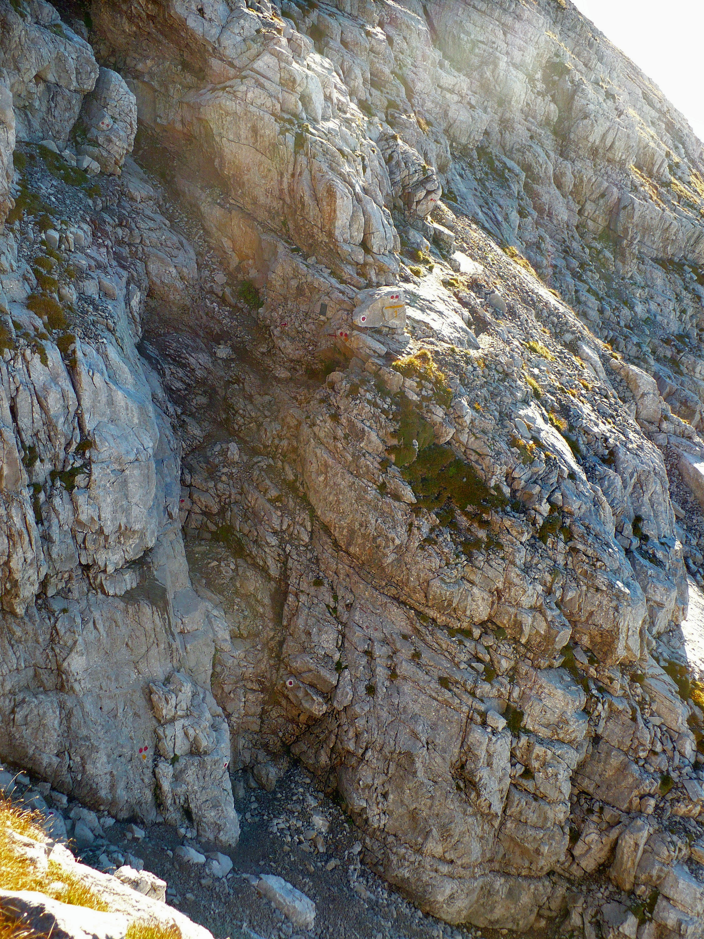 On the Pizzo Arera normal route